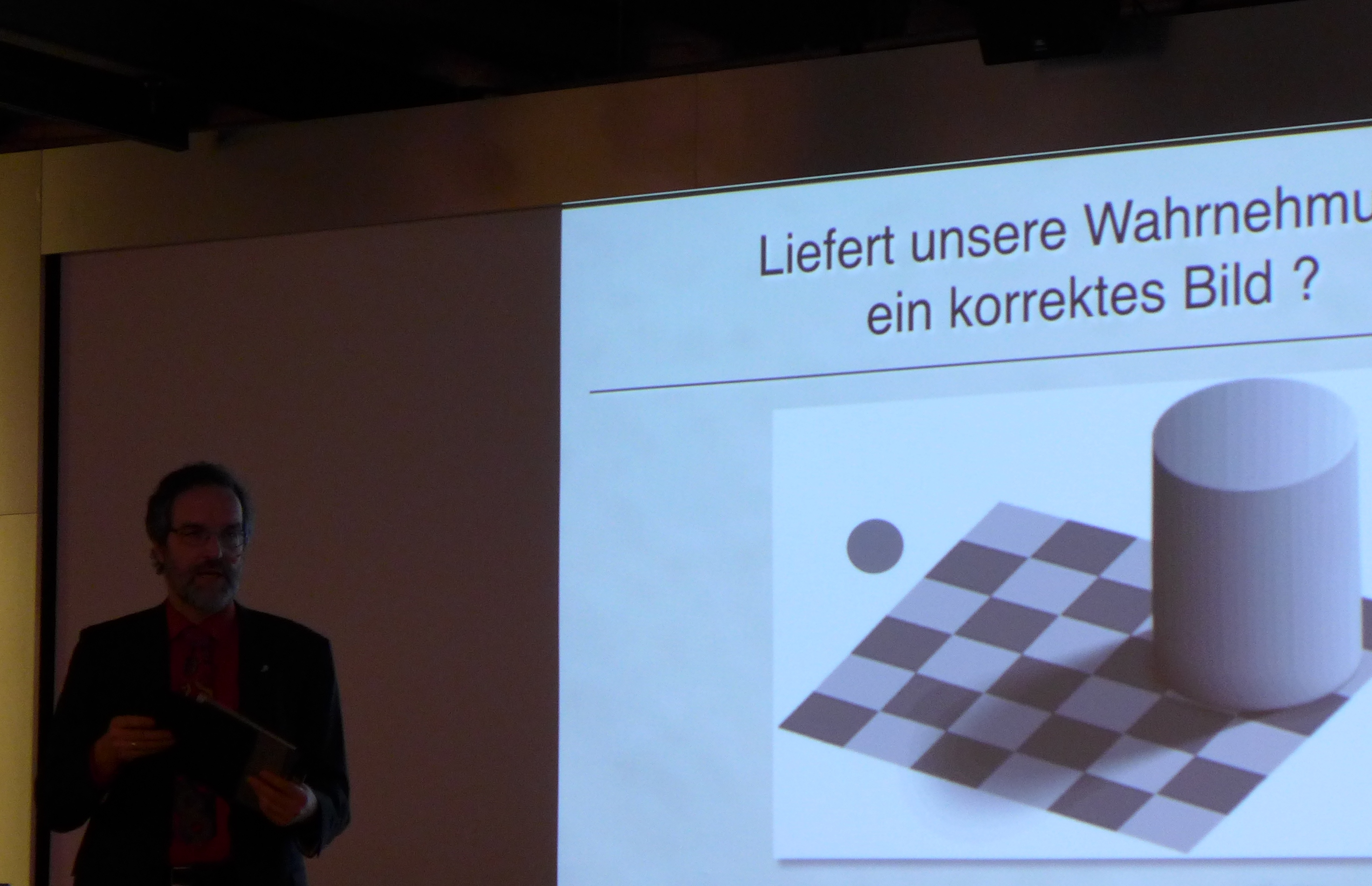 Stefan Treue discussing checker shadow illusion at the PS Speicher location (public lecture held on February 22, 2016)